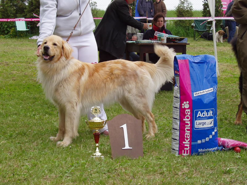 Open class winner on Club dog show of Czech Hovawart club in Milovice